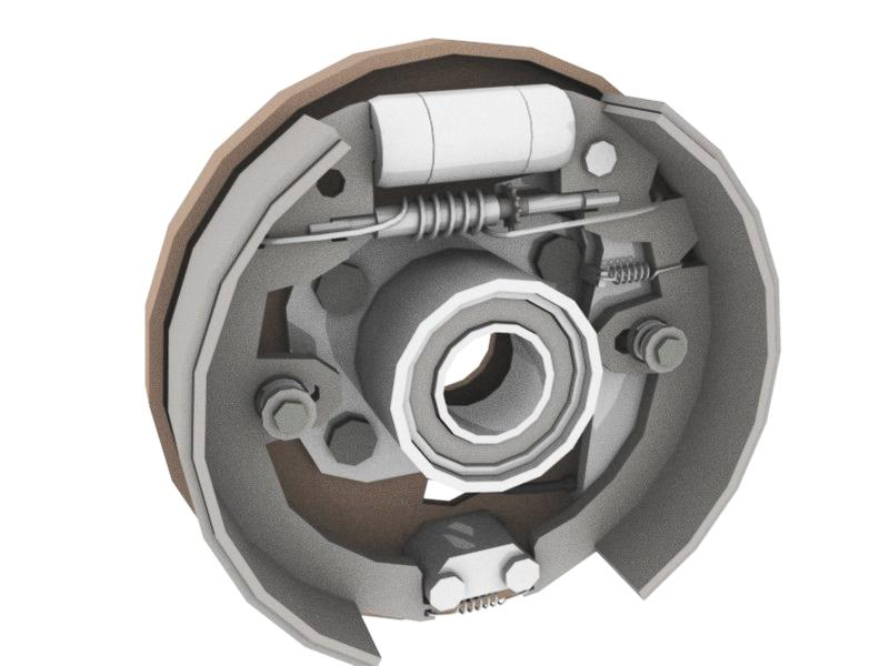 Test rendering of a drum brake.